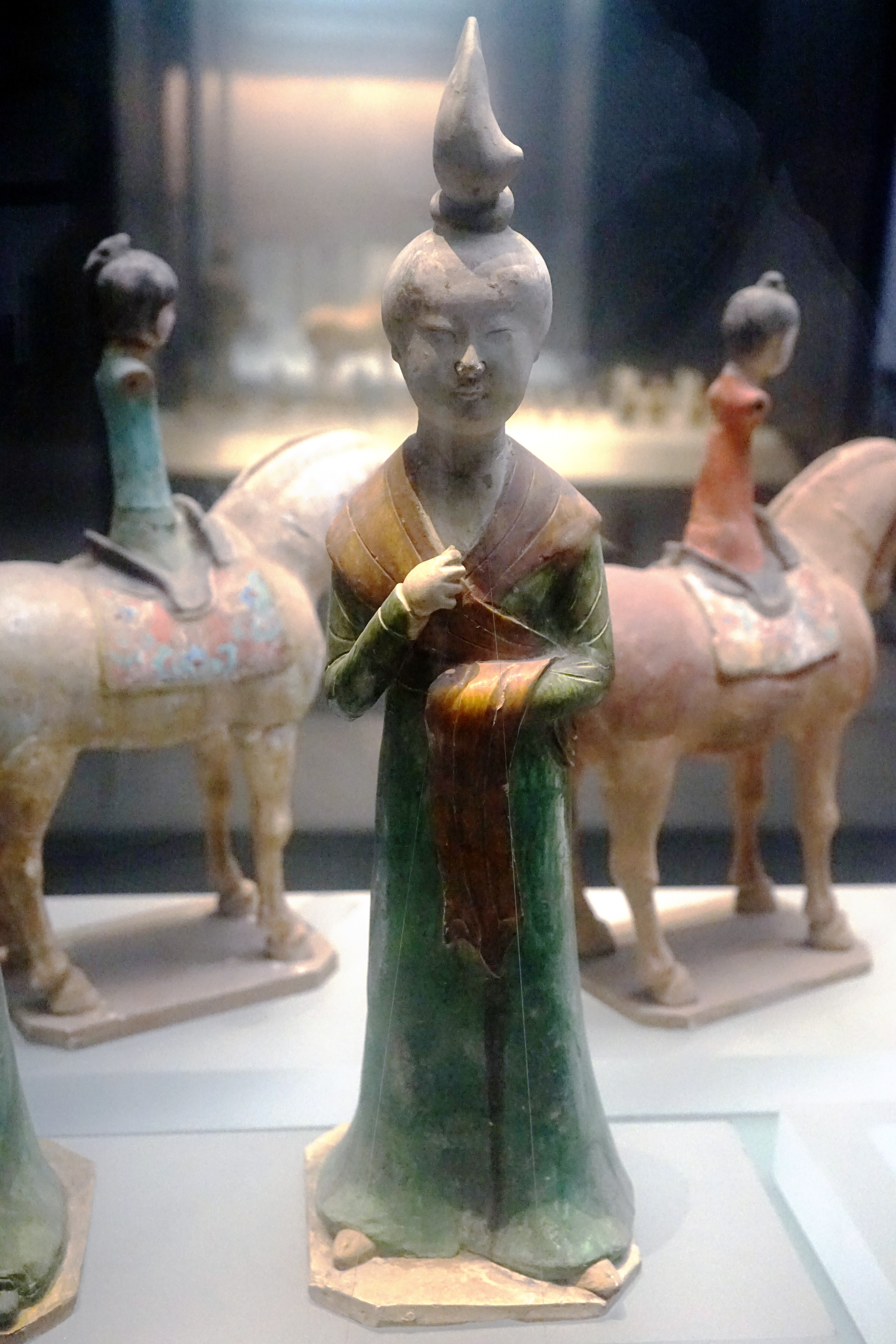 Pottery Female Attendant. Tang Dynasty. Unearthed from Prince Jie Min's tomb. 弯眉细眼，高鼻小嘴，面部圆润。结“翻刀髻”，两耳外露。上身坦胸窄袖深绿衫，下身拖地长裙，腰系宽带，肩披褐色帛，长裙下露出两脚尖踩于底板上。一级文物。